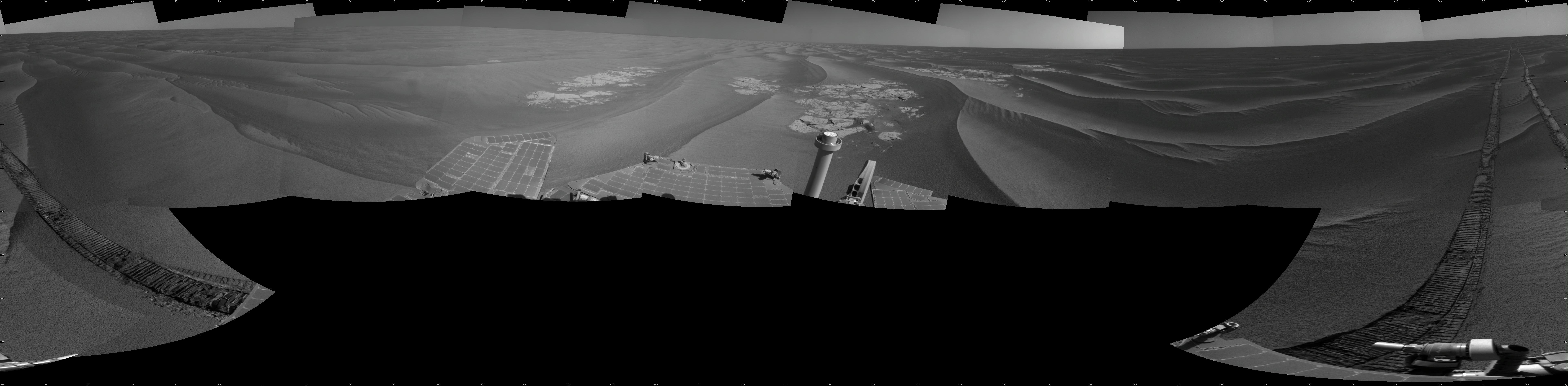 NASA's Mars Exploration Rover Opportunity used its navigation camera to take the images combined into this full 360-degree view of the rover's surroundings after a drive on the 2,220th Martian day, or sol, of Opportunity's mission on Mars (April 22, 2010). South is at the center; north at both ends. Opportunity drove 10.18 meters (33.4 feet) toward the south-southeast on Sol 2220. The drive had been planned to go farther, but one precaution included in the commands sent to Opportunity that sol was for the rover to pause after about 10 meters and check whether its wheels were slipping more than 40 percent. This was a safeguard against having the rover's wheels sink too far into the sand. The slippage had exceeded that amount, so Opportunity did not try to drive farther. After receiving data from the Sol 2220 drive, the rover team assessed the situation and decided that the wheels were not sinking excessively despite the slippage. After recharging batteries, Opportunity continued driving in the same direction six sols later. Opportunity took some of the component images for this mosaic on Sol 2220, after the drive, and the rest on Sol 2221. Wind-formed ripples of dark sand make up much of the terrain surrounding this position. Patches of outcrop are visible to the south. For scale, the distance between the parallel wheel tracks is about 1 meter (about 40 inches). The site is about 6 kilometers (3.7 miles) south-southwest of Victoria Crater. This view is presented as a cylindrical projection with geometric seam correction.